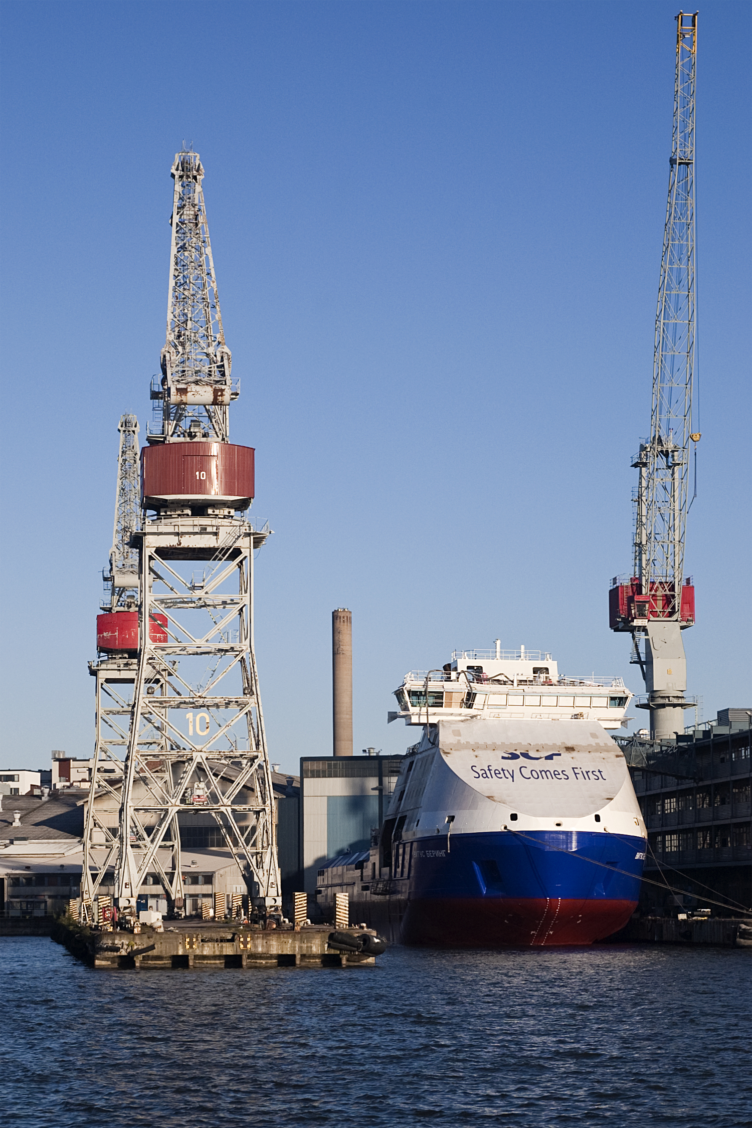 Russian icebreaking platform supply ship Vitus Bering (IMO 9613549) under construction at Arctech Helsinki Shipyard.